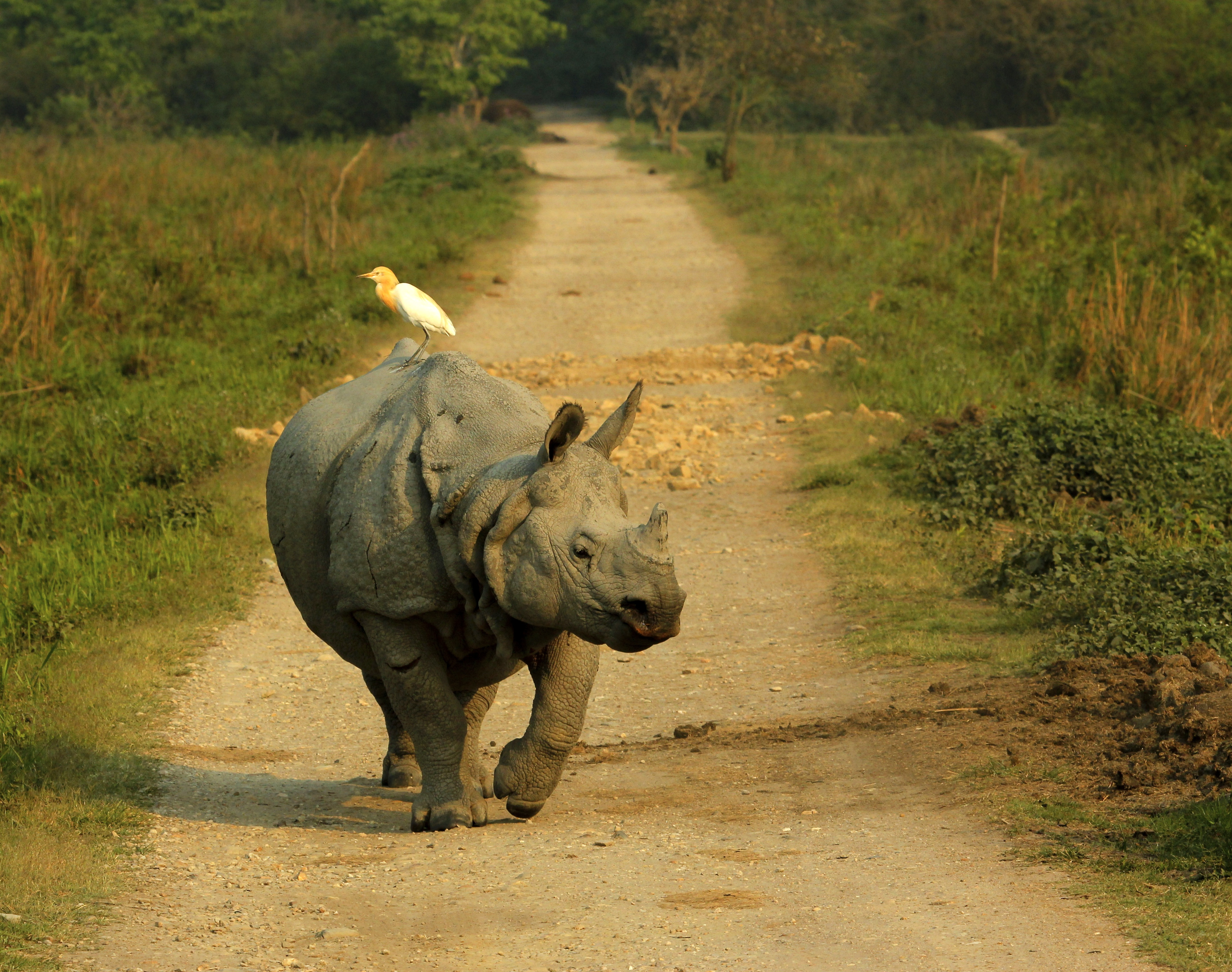 Rhino crossing, Kaziranga